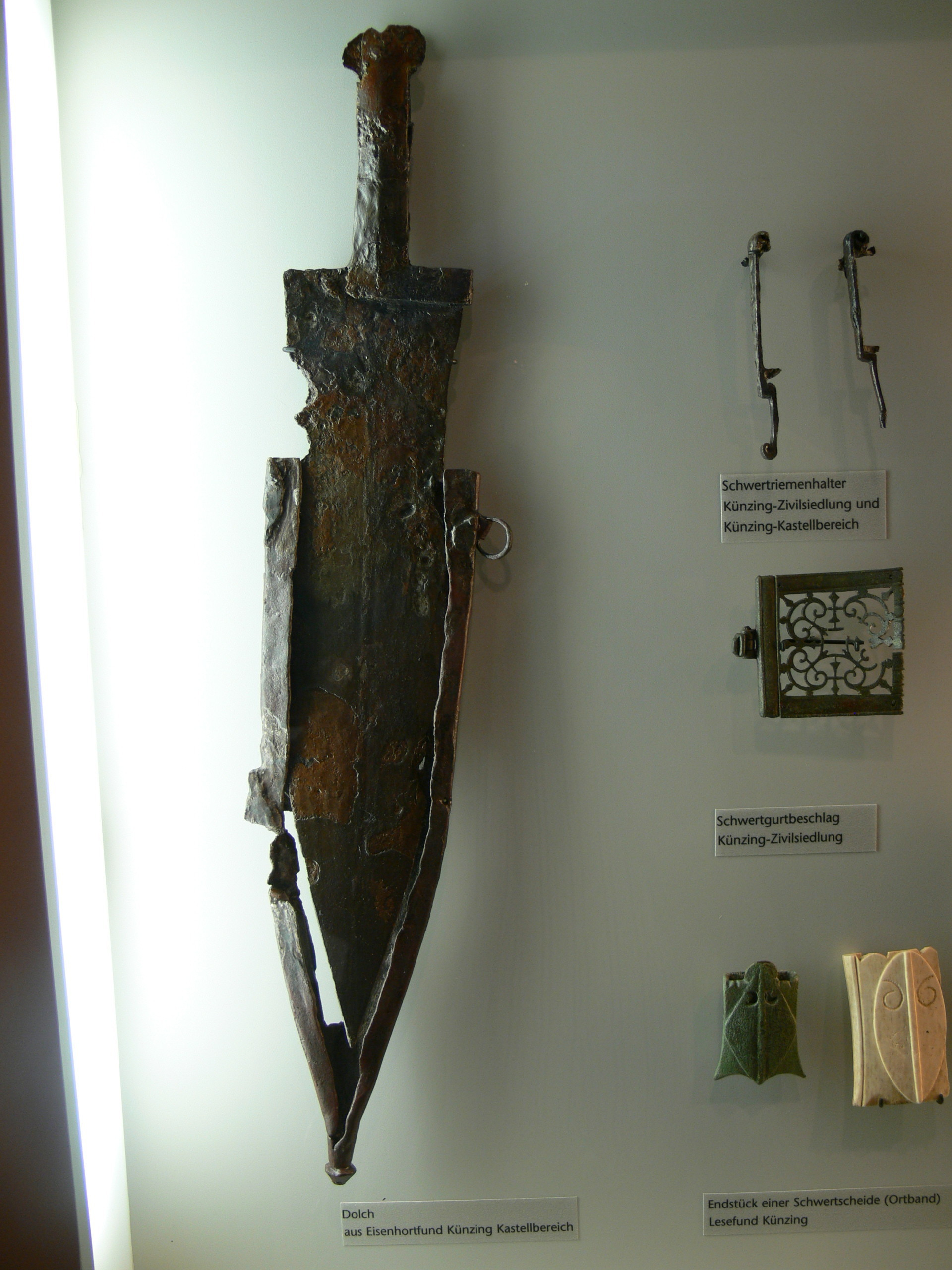 Museum Quintana - Roman department. Roman pugio ( dagger ).